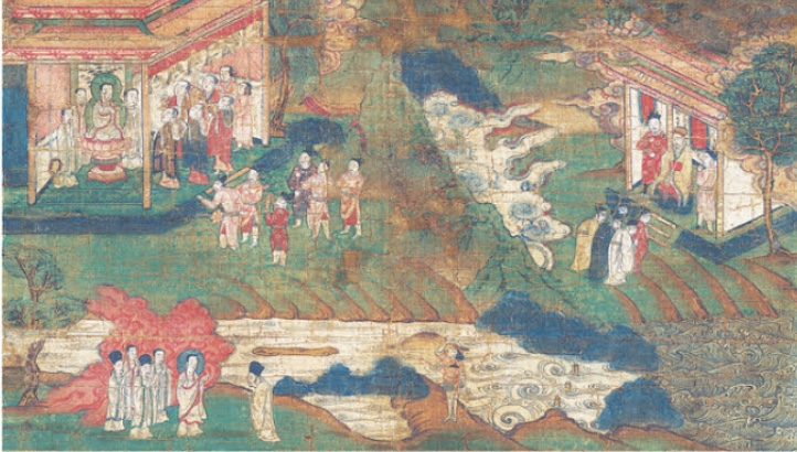 Mani’s Community Established, fragment of hanging scroll, gold and pigments on silk, H: 32.9 cm, W: 57.4 cm, southern China, 14th/15th century (private collection, Japan).